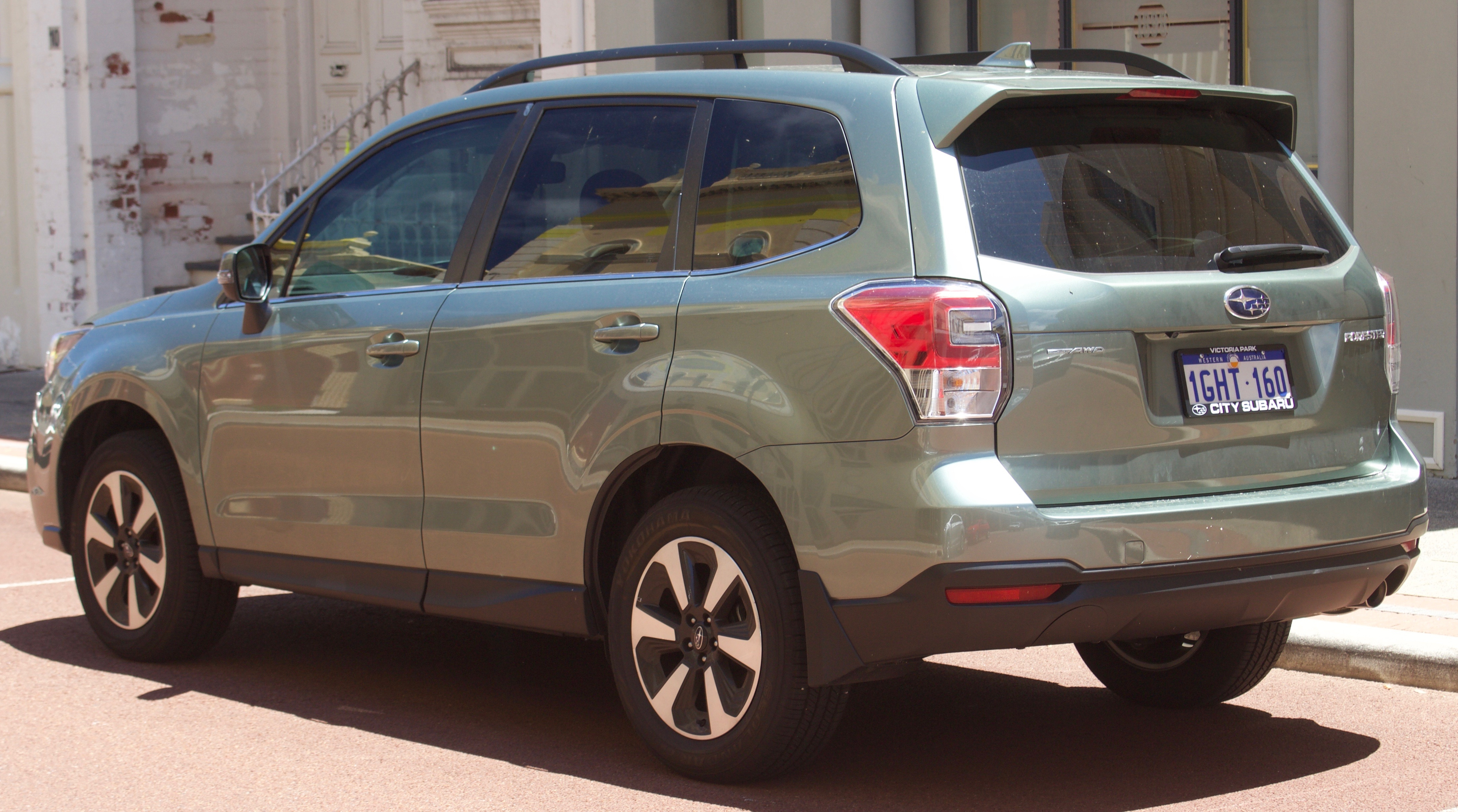 2017 Subaru Forester (MY17) wagon. Photographed in Fremantle, Western Australia, Australia. Please note, that I cannot determine the actual trim due to no external differentiation, also additionally most trims are able to show external differing.